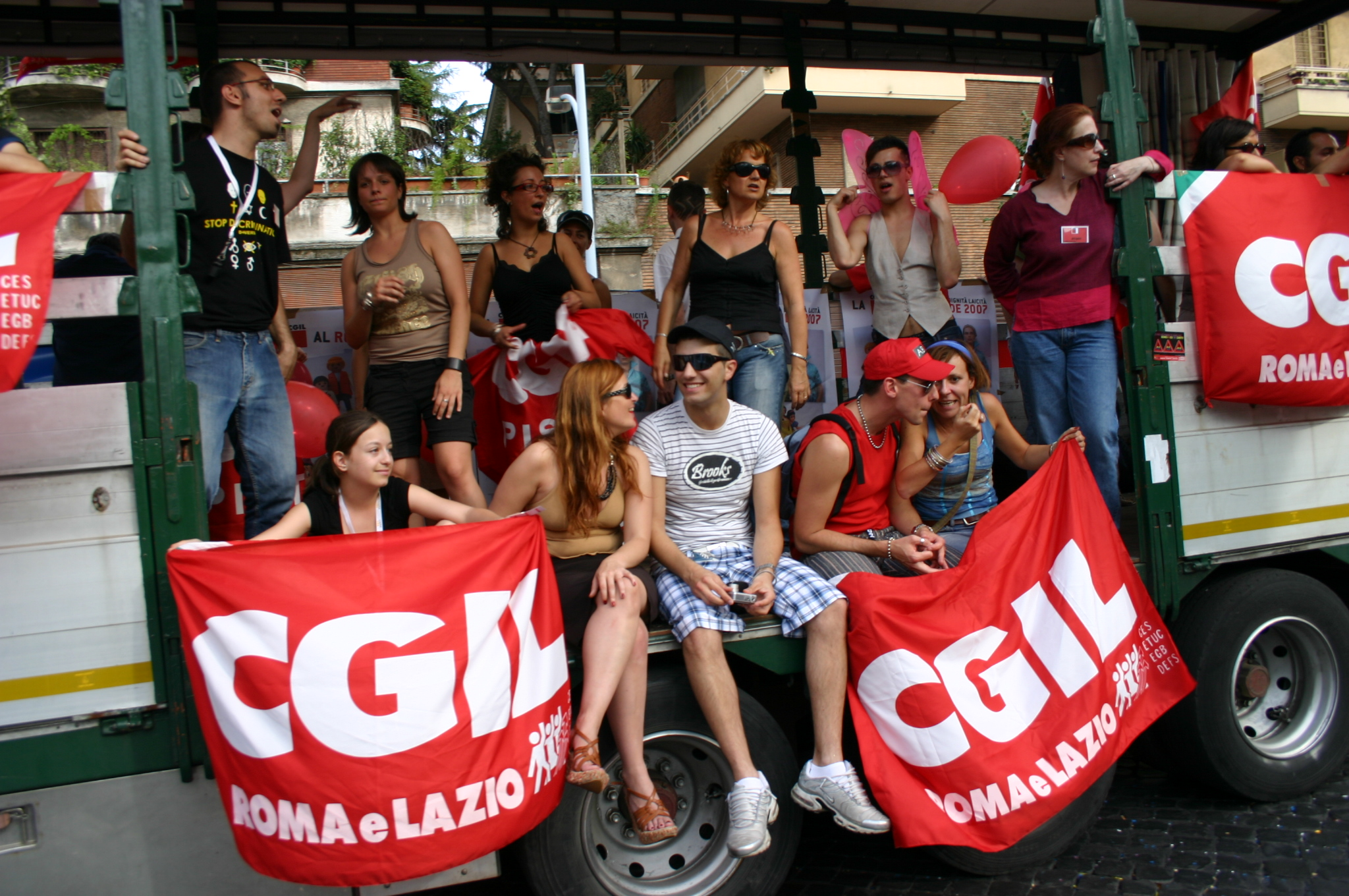 CGIL at the National Gay Pride march in Rome, on June 16 2007. Picture by Giovanni Dall'Orto.